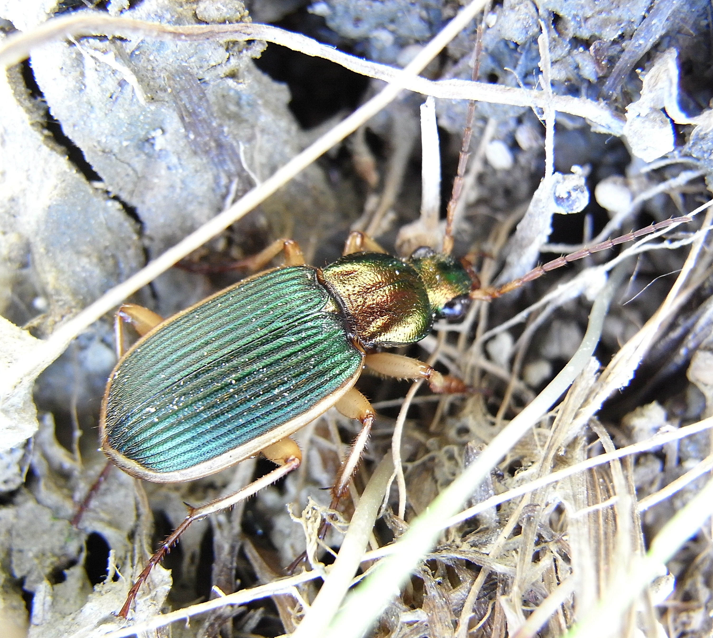 Chlaenius festivus, photographed near Harkány, Baranya county, Hungary.